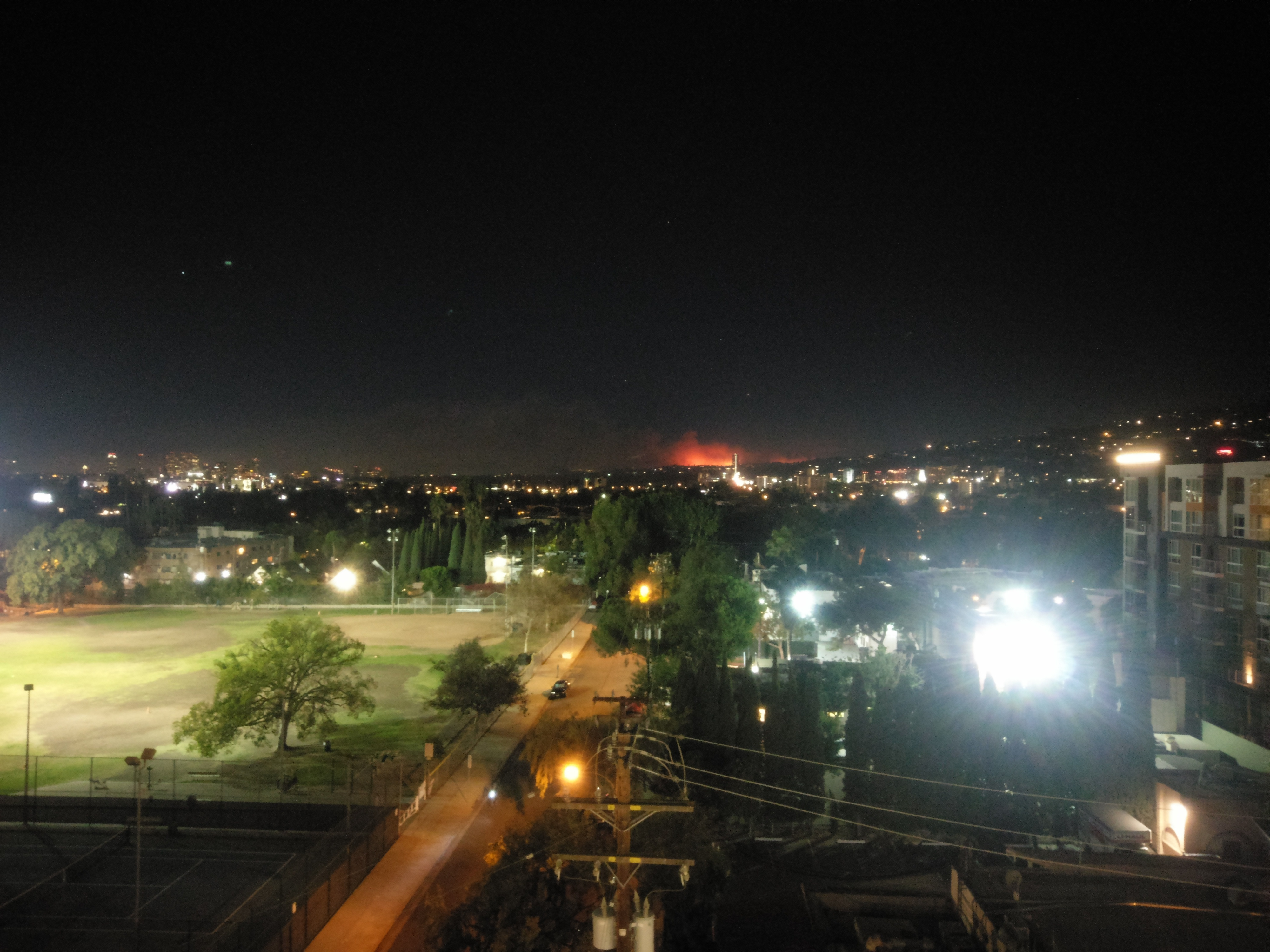 Skirball Fire shortly after it started on December 6, 2017.